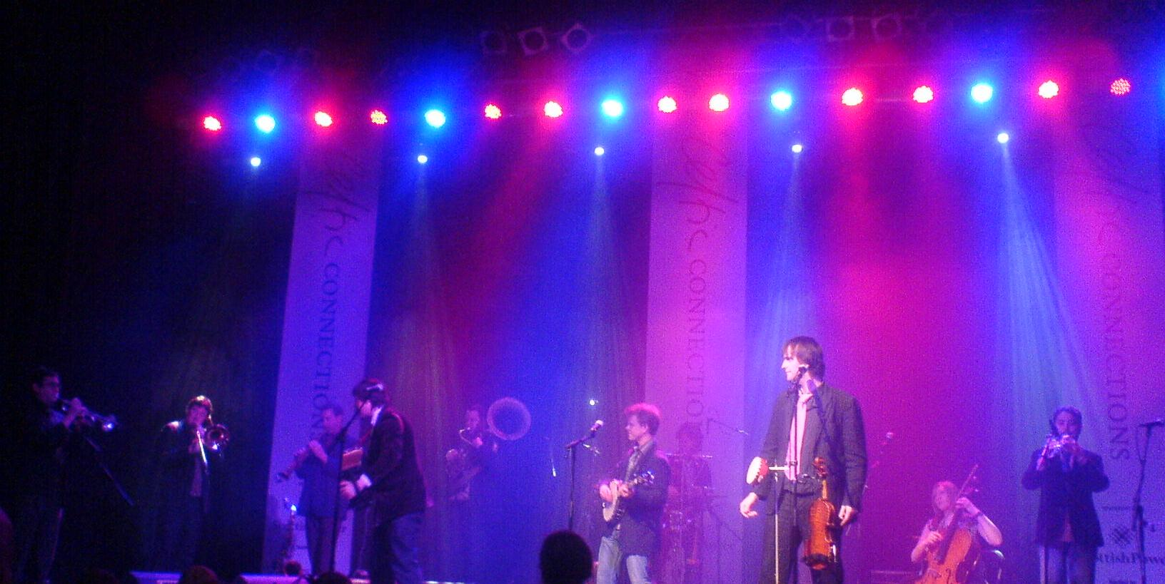 Bellowhead performing at the 2008 Celtic Connections event in the ABC Glasgow.